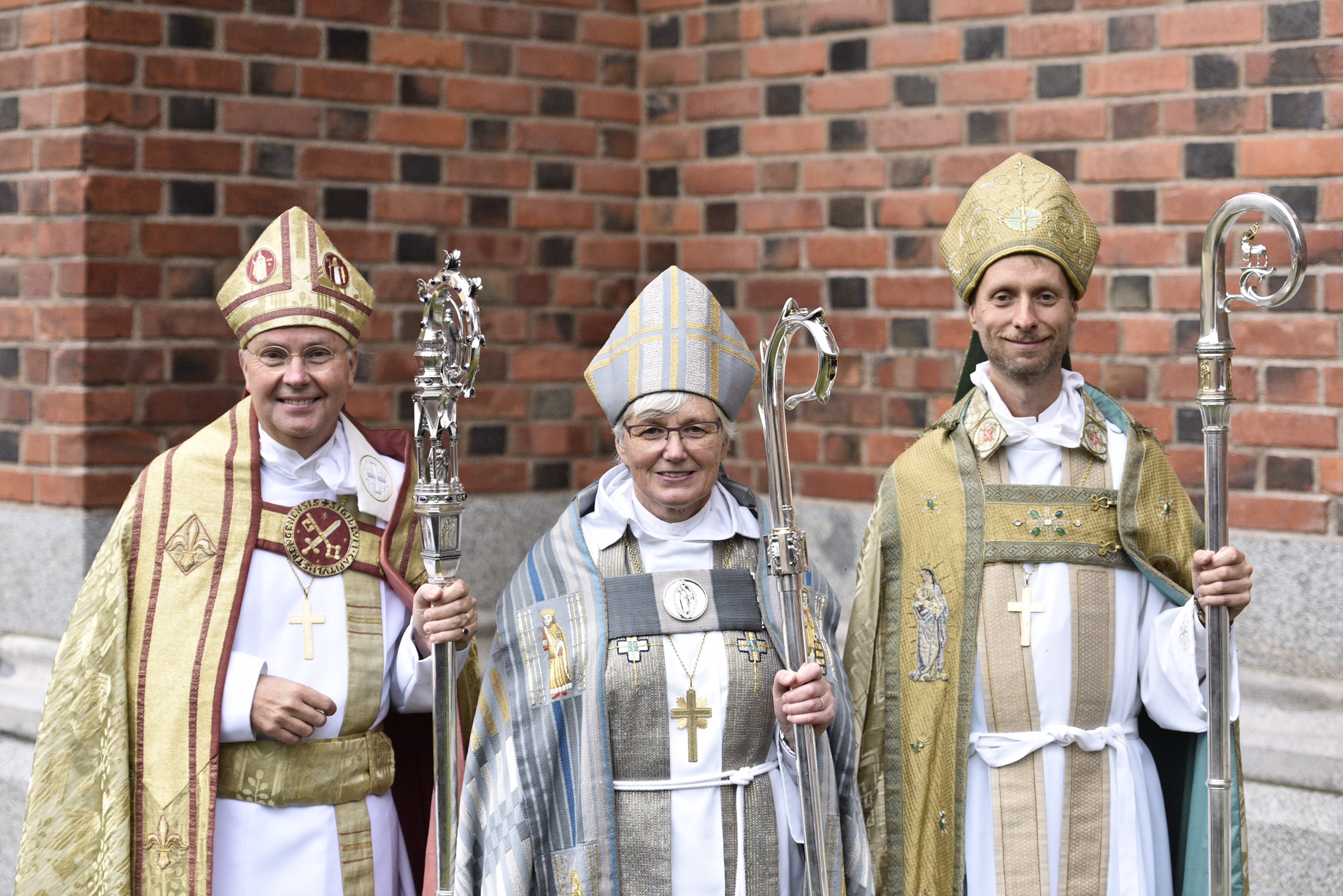 The consecration of two new bishops in the Church of Sweden by Archbishop Antje Jackelén (centre) in Uppsala Cathedral on 6 September 2015: Johan Dalman, Bishop of Strängnäs (left), and Mikael Mogren, Bishop of Västerås (right).